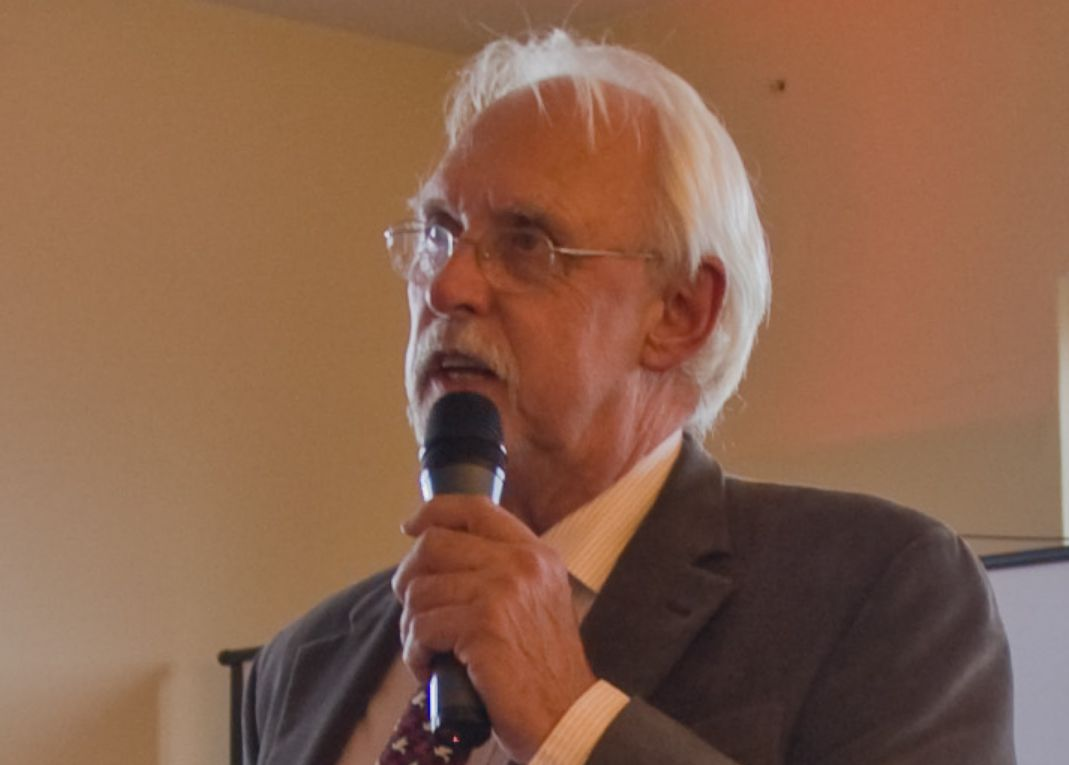 Roel in 't Veld, 2009